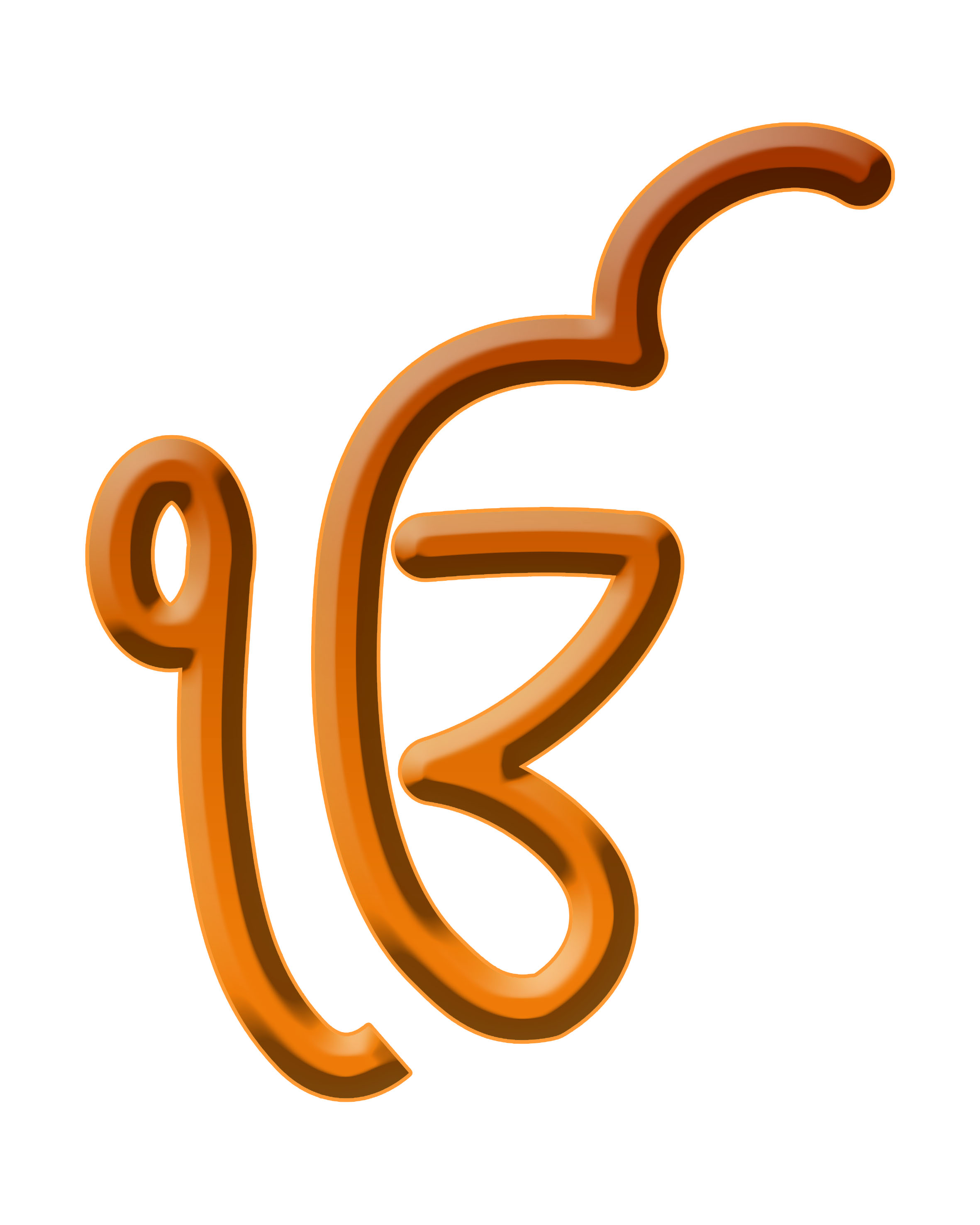 Sikhism Related Graphic of Ek-Onkar - one of important "logos" of this faith. (Orange)